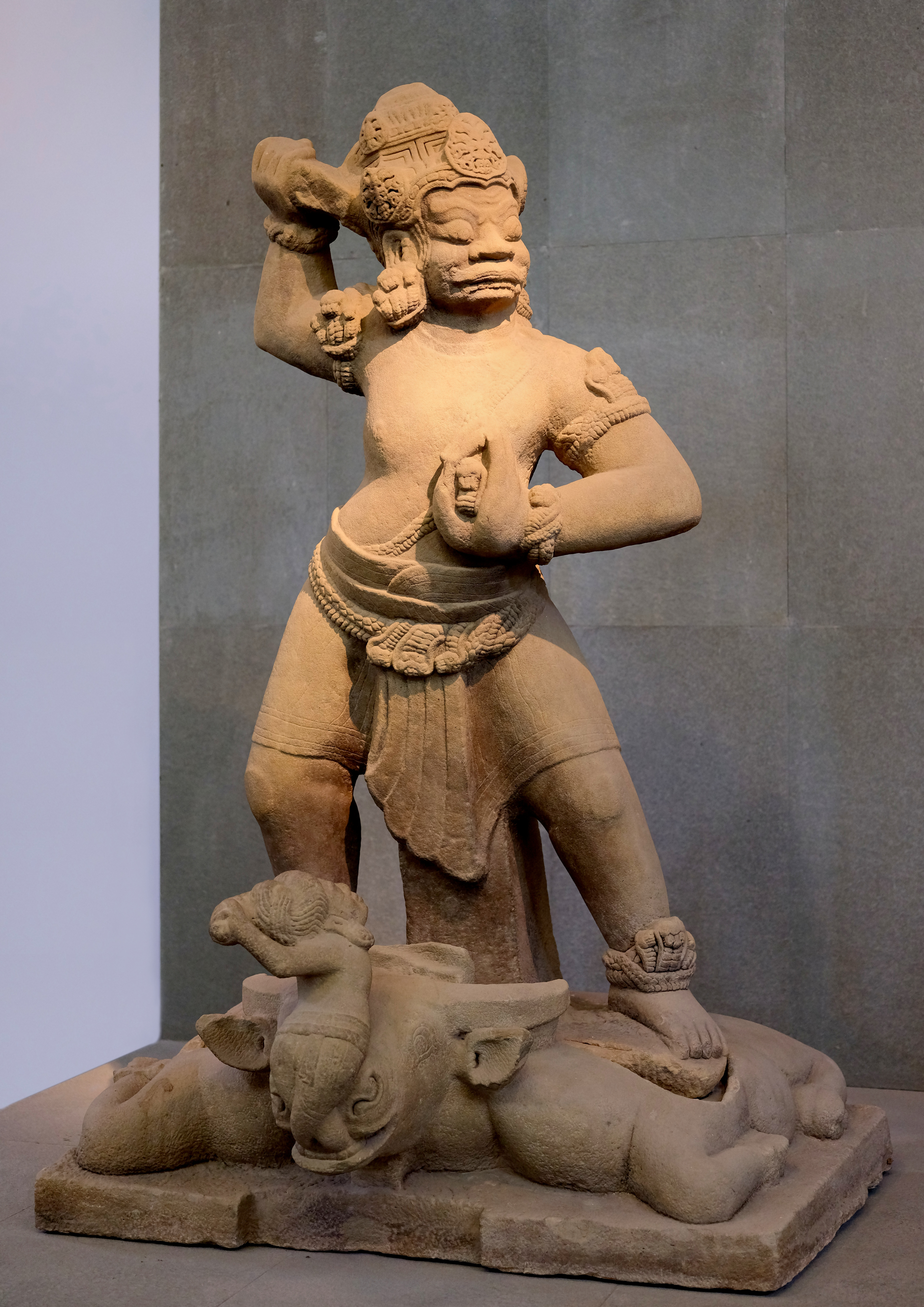 Door guardian (dvārapāla) vanquishing a demon. Đồng Dương, province of Quảng Nam Late 9th-early 10th century, Cham sculpure museum in Đà Nẵng, Vietnam.